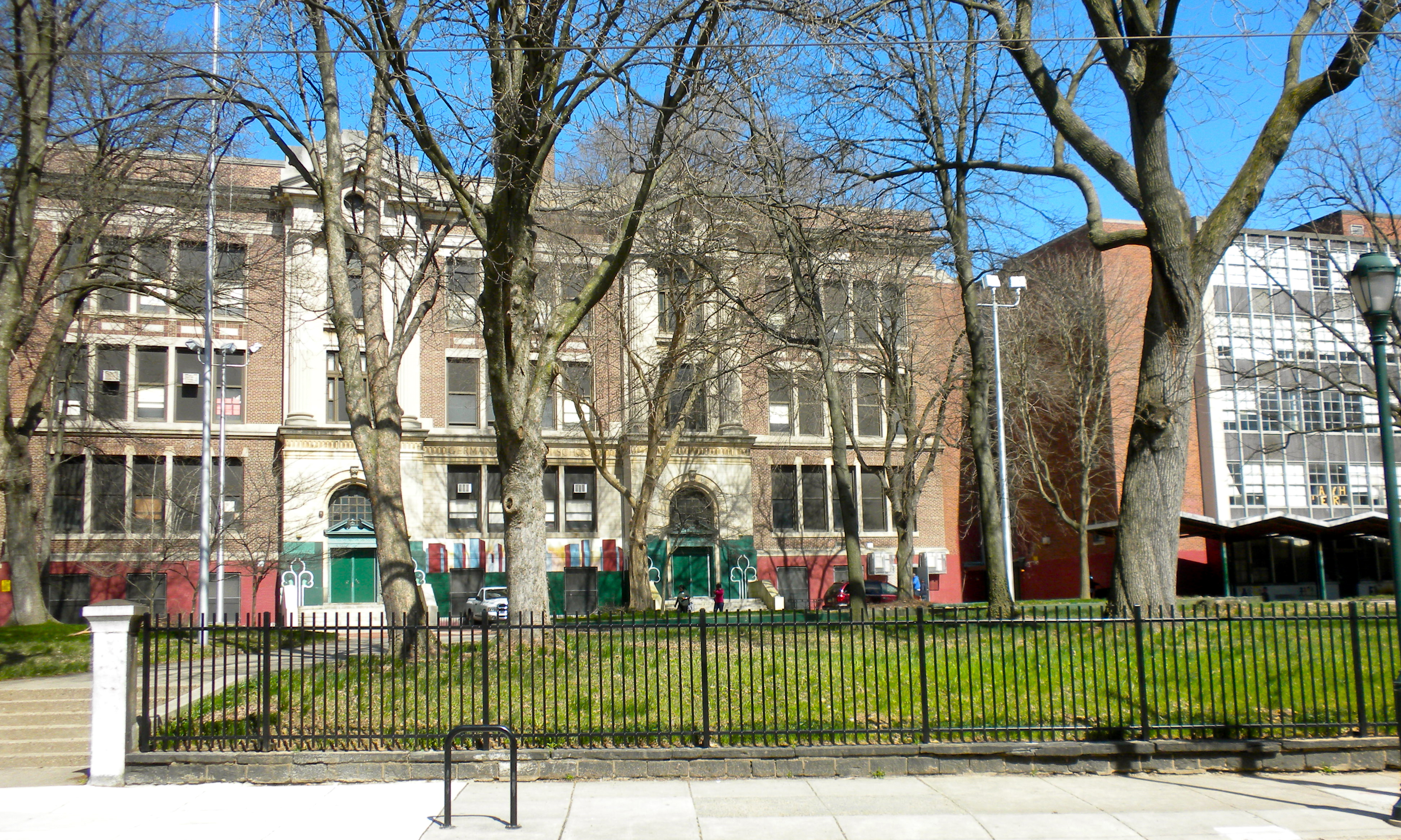 Germantown High School in Philadelphia, built 1914, on Germantown Ave., in the Germantown neighborhood of Philadelphia.